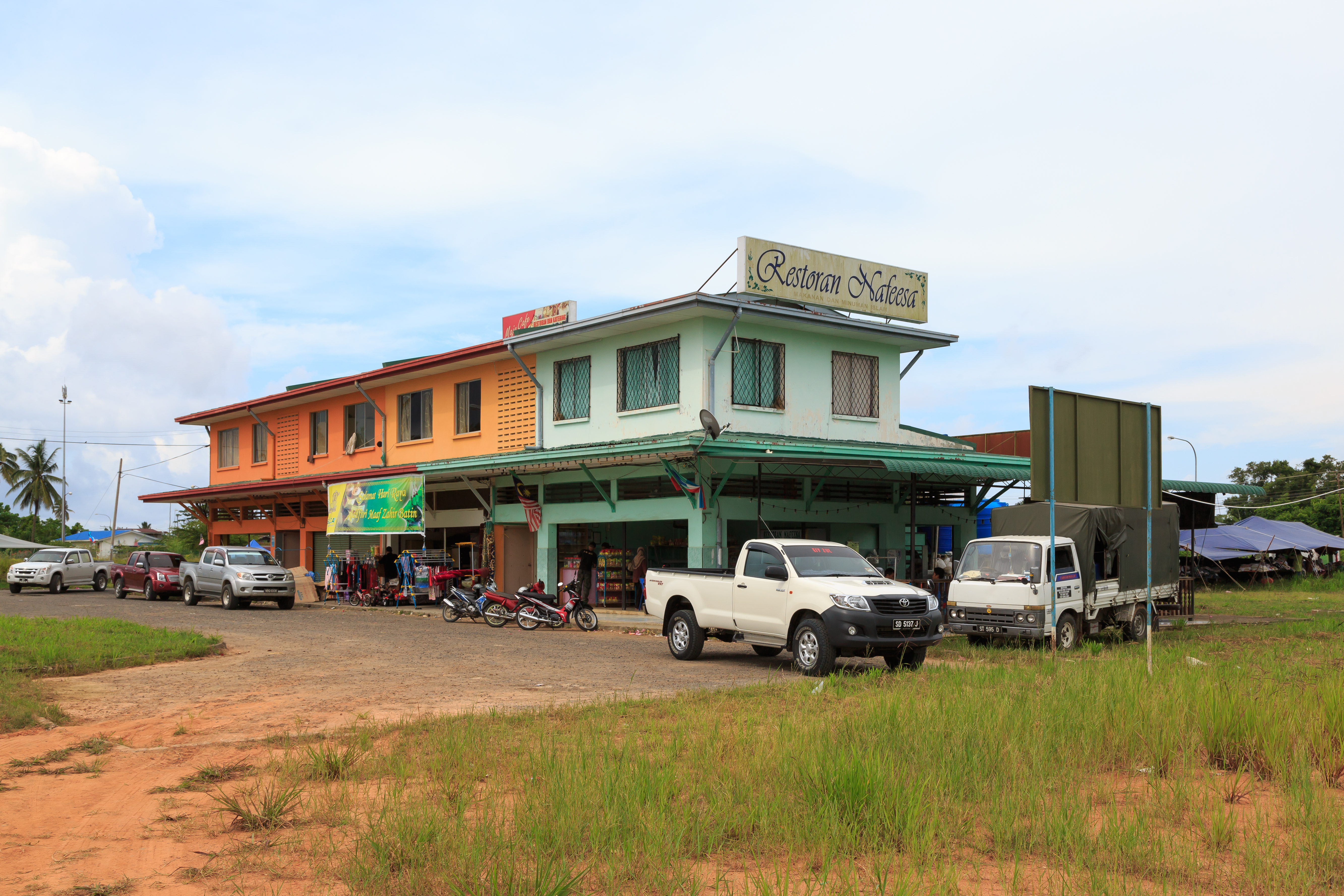 Tungku, Sabah: Shop row at Pekan Tungku